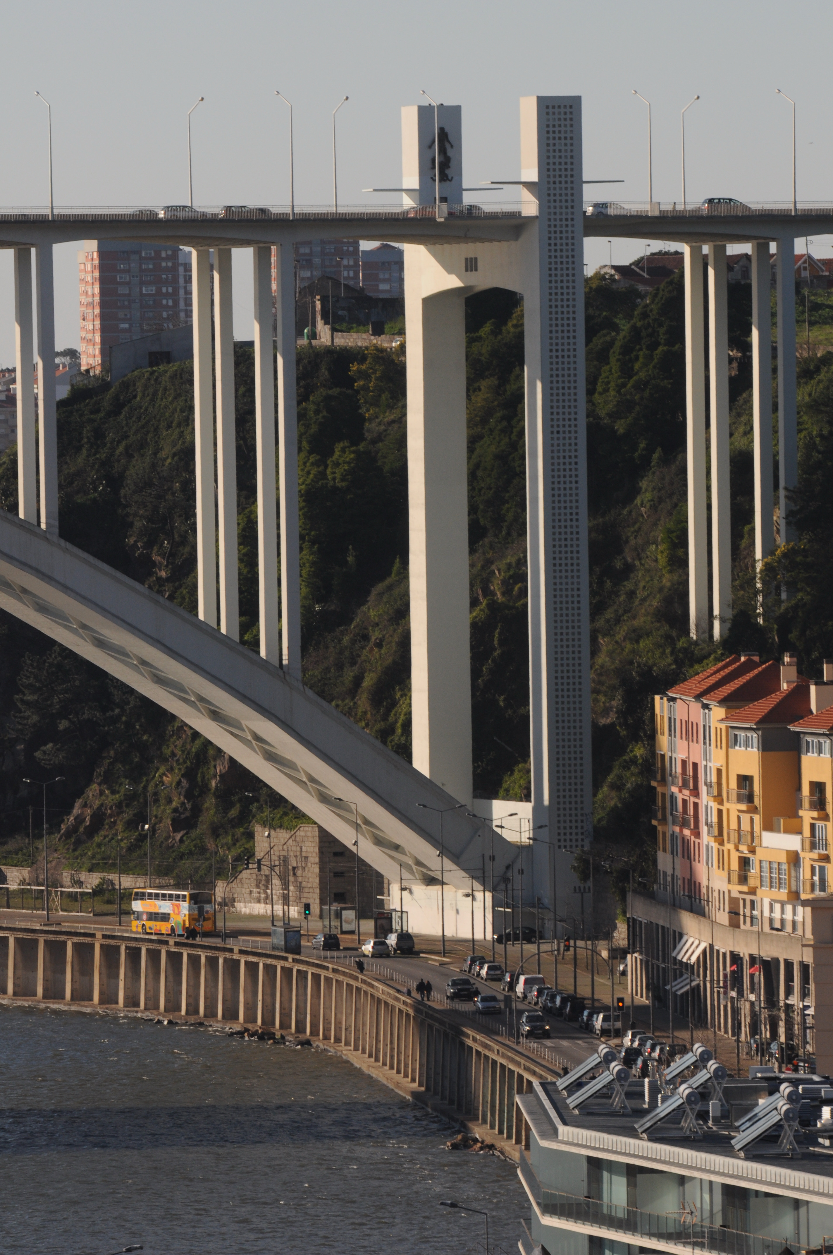 Arrabida Bridge